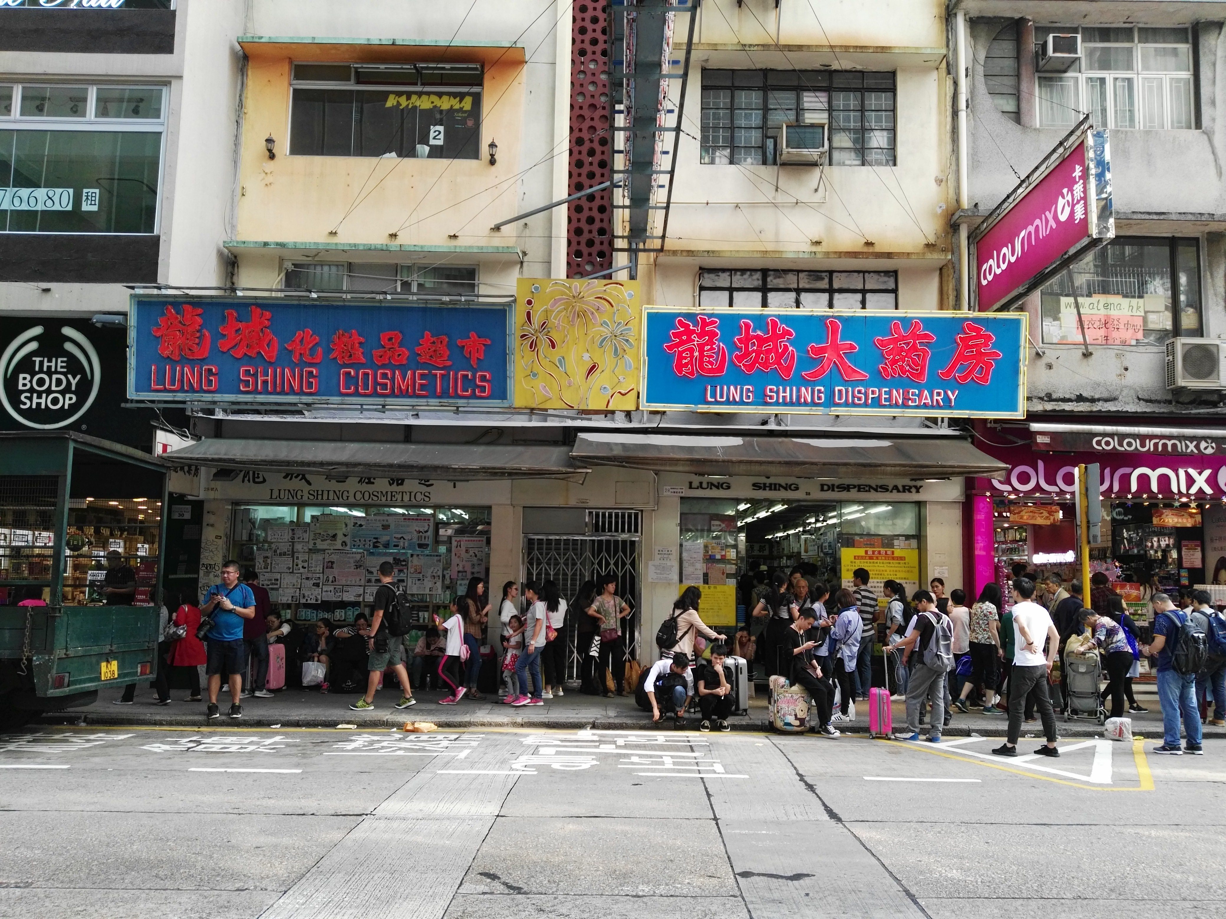 Lung Shing Pharmacy in Tsim Sha Tsui